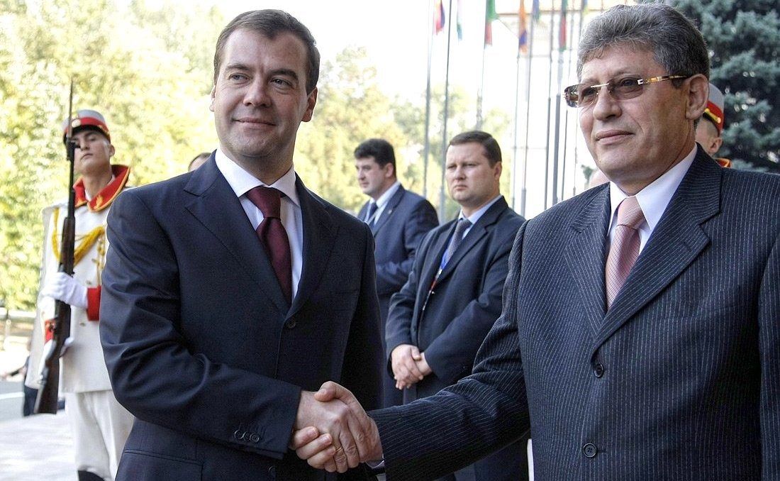 CHISINAU. With Acting President of Moldova Mihai Ghimpu.